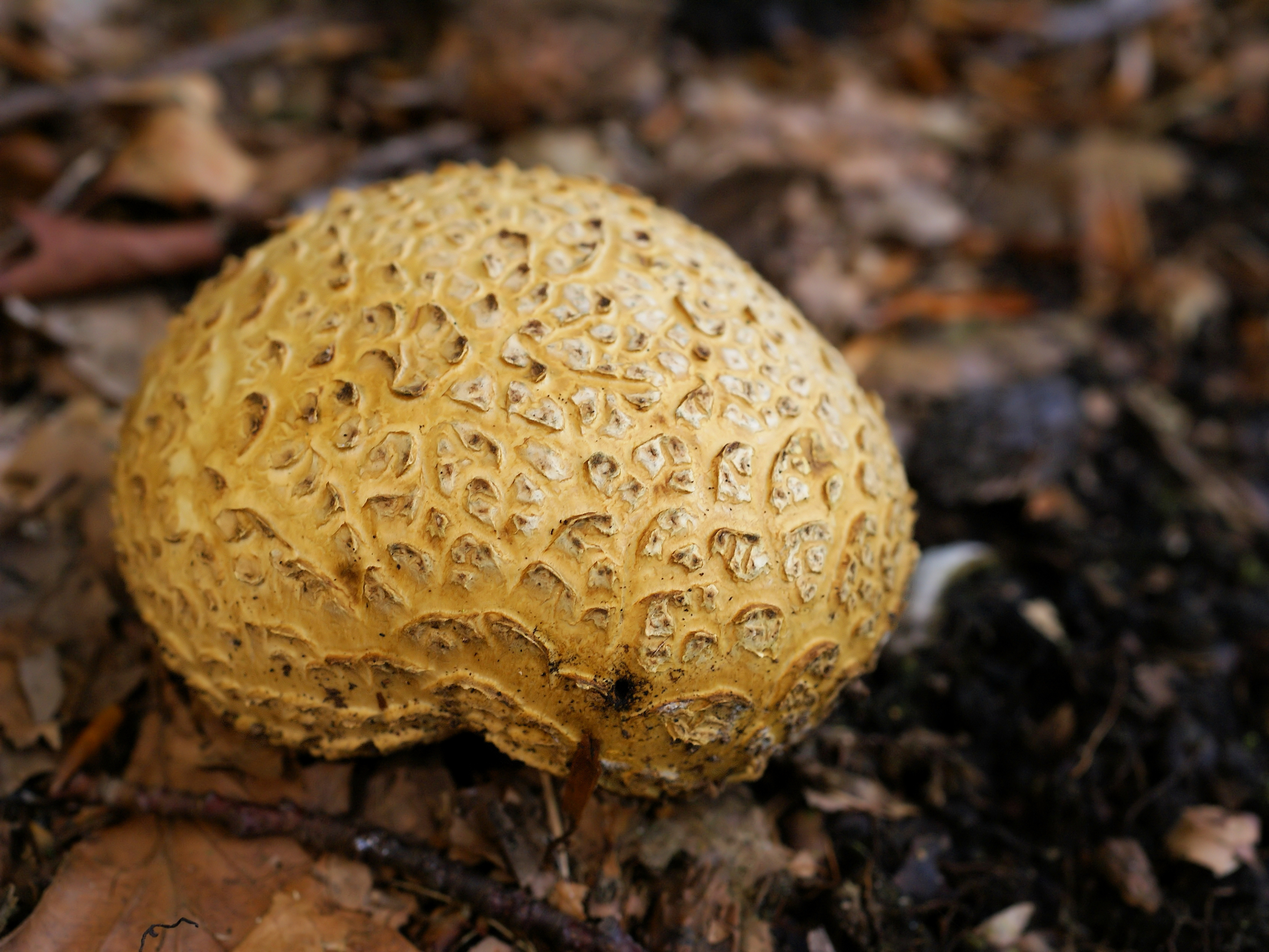 Earth ball at Domain Rijckevelde, Brugge, Belgium